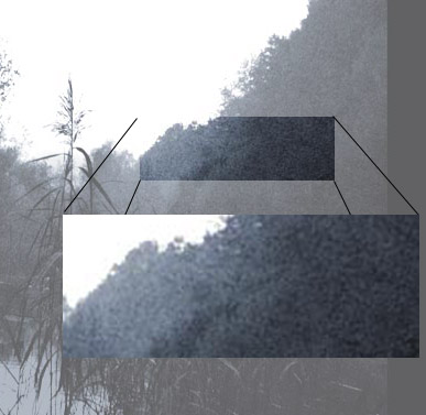 An Example picture with Image Noise